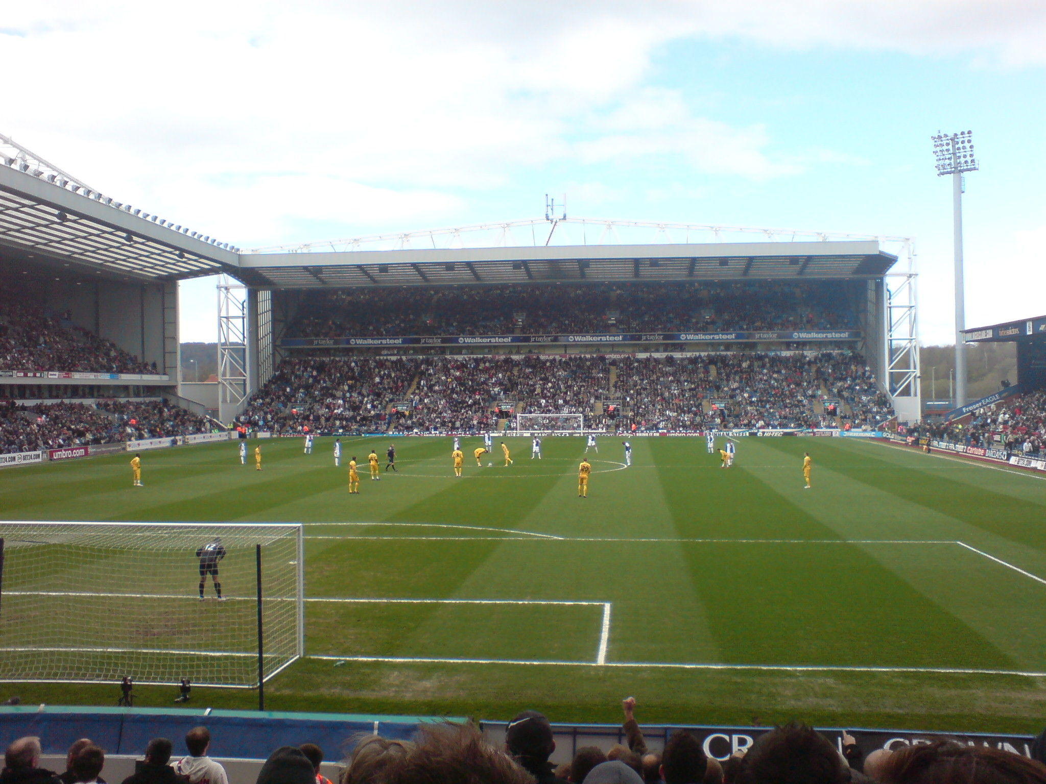 The Walker Steel stand, Ewood Park, Blackburn